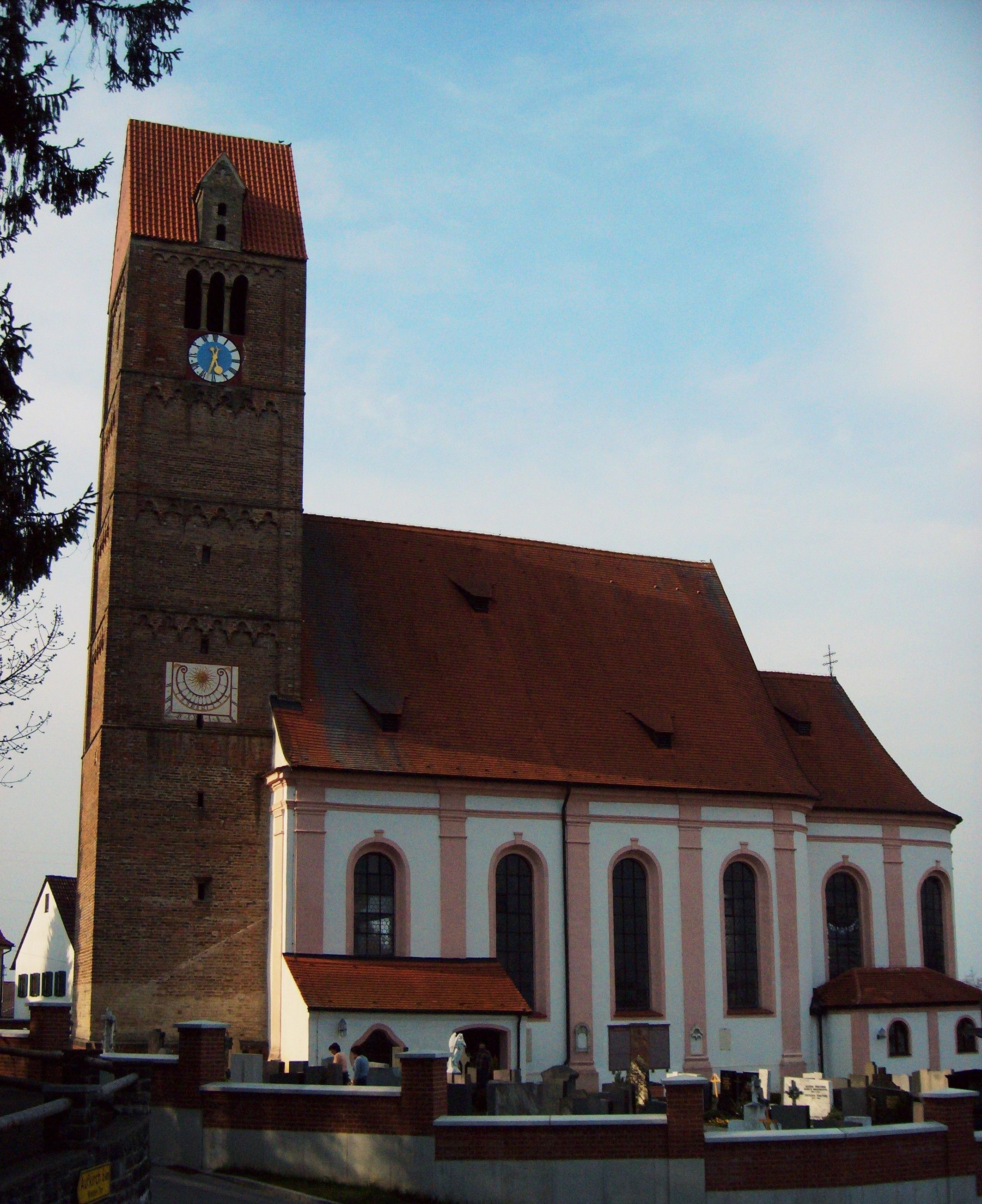 Leeder (Fuchstal), Parish Church of the Annunciation from south-west.